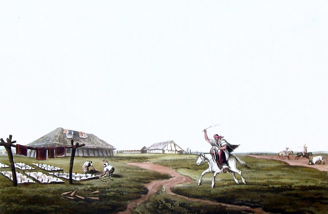 "Estantia (farm) on the River San Pedro", painting from Picturesque illustrations of Buenos Ayres and Monte Video, consisting of twenty-four views: accompanied with descriptions of the scenery, and of the costumes, manners, &c., of the inhabitants of those cities and their environ, by Emeric Essex Vidal - Publisher: London : Published by R. Ackermann, 101, Strand